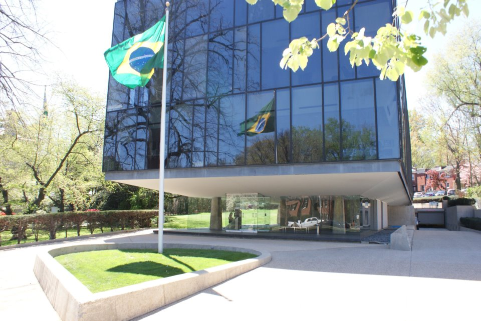 Chancery of the Embassy of Brazil Washington DC